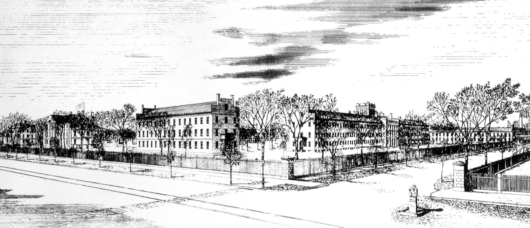 National Armory, Springfield, Mass.